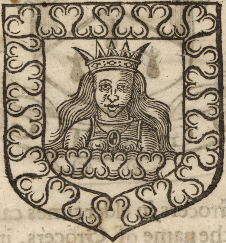 Coat of arms of the Worshipful Company of Mercers. Blazon of arms confirmed to the Company in 1911: Gules, issuant from a bank of clouds a figure of the Virgin couped at the shoulders proper vested in a crimson robe adorned with gold, the neck encircled by a jeweled necklace crined or and wreathed about the temples with a chaplet of roses alternately argent and of the first, and crowned with a celestial crown, the whole within a bordure of clouds also proper.